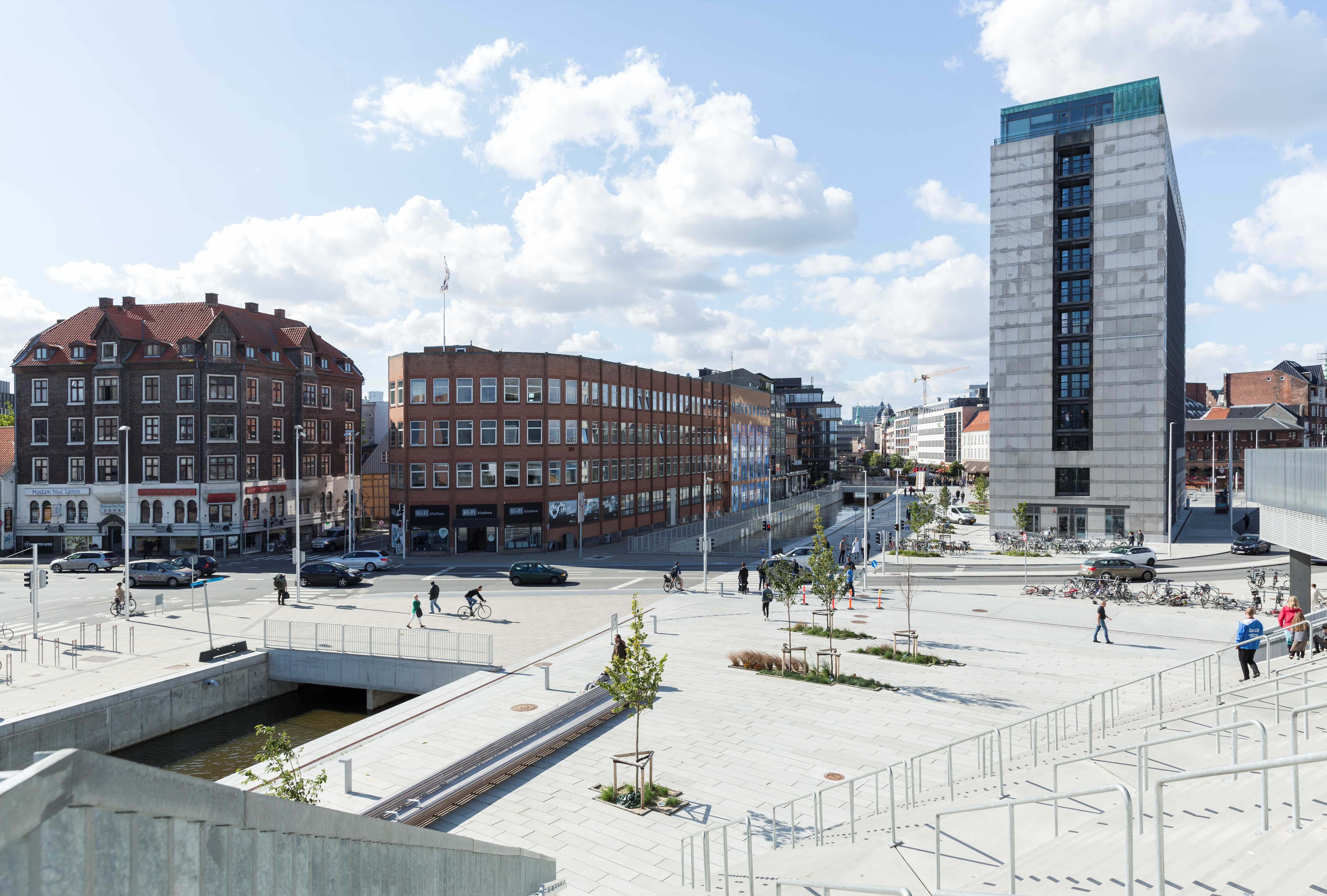 Europa Plads seen from Dokk1